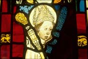 Section of stained glass window from St James Church, High Melton